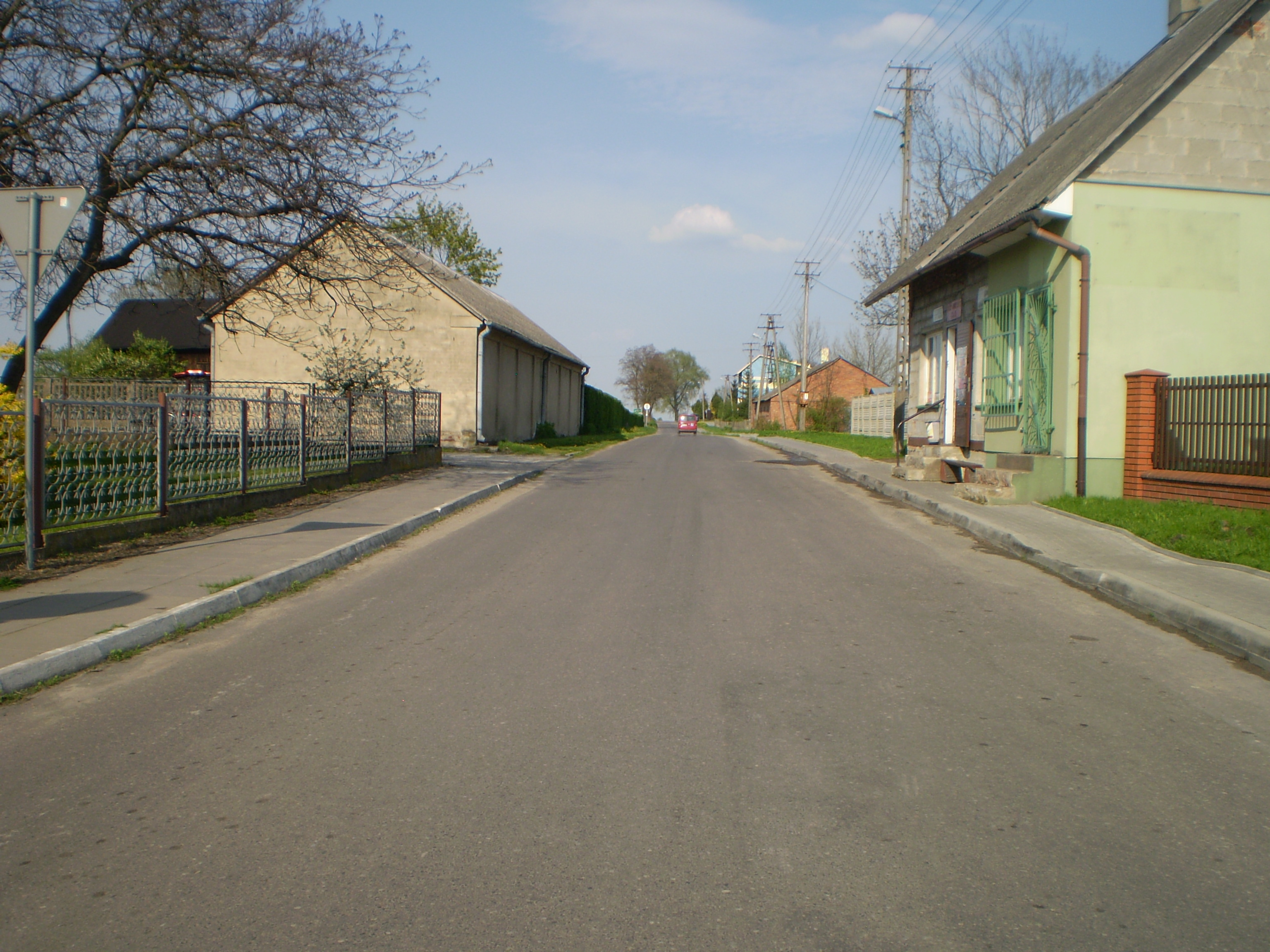 Zadzim